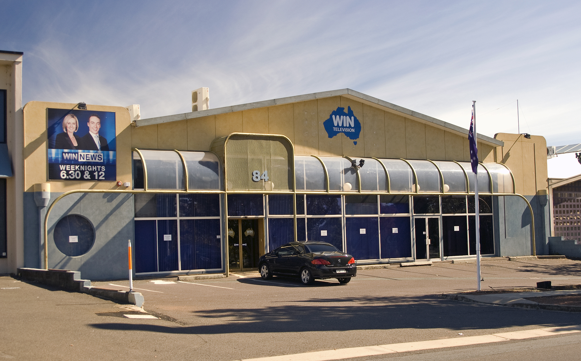 WIN Television's Canberra studios in Kingston.